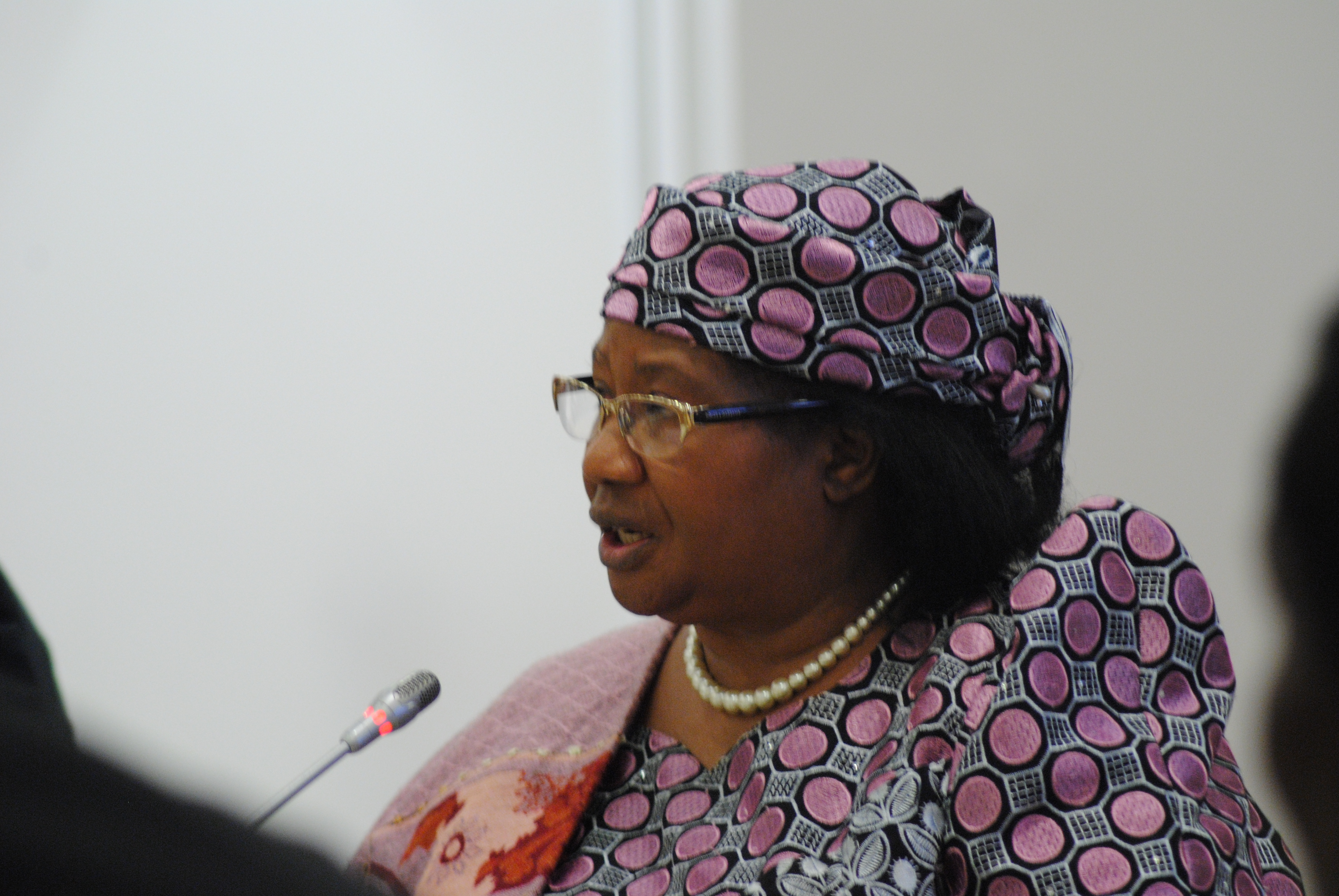 Good Governance, Growth and Human Rights: A Vision for Malawi's Development, 21 March 2013 cht.hm/16LiCqJ